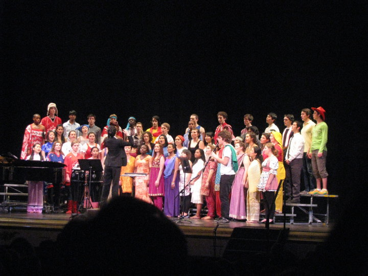 Il coro del Pearson College a One World 2010.